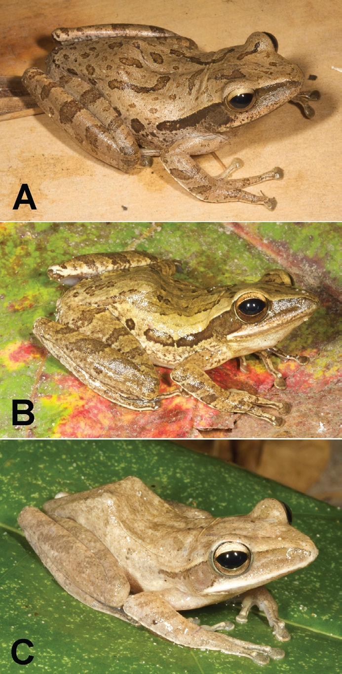 Polypedates cf. leucomystax. The individuals shown display the diversity of color patterns found in this species A A specimen from Bakhita (SVL 45 mm) displaying irregular dark brown spots and barred legs on a lighter brown background B A specimen from Loré, Lautém District (SVL 48 mm), presenting with a combination of brown dorsal and dorsolateral lines and leg barring on a nearly yellow background C A specimen (SVL 46 mm) from the same locality as B, showing a very lightly colored dorsum devoid of lines and spots.